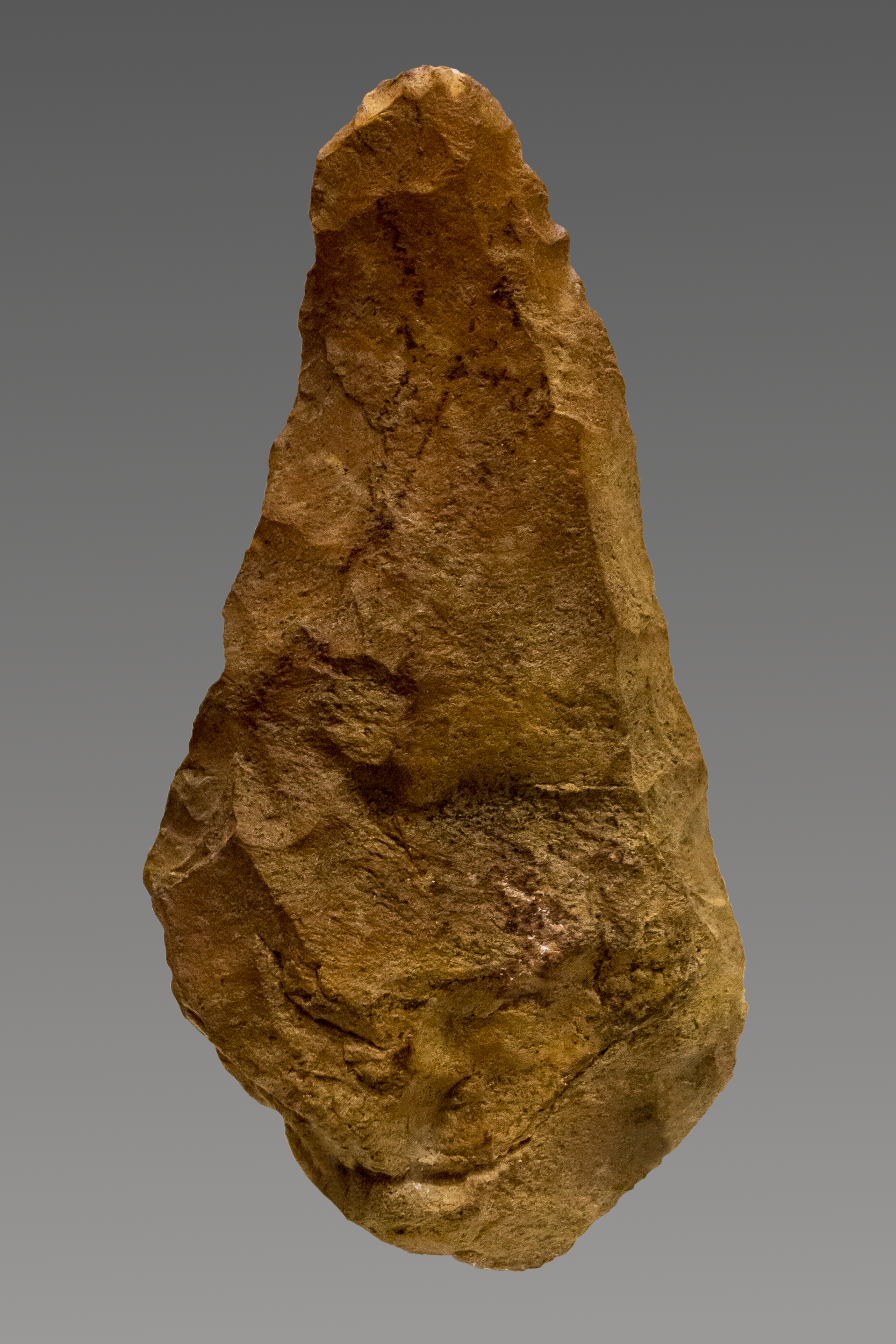 Hand axe of Schnaitheim, Germany.